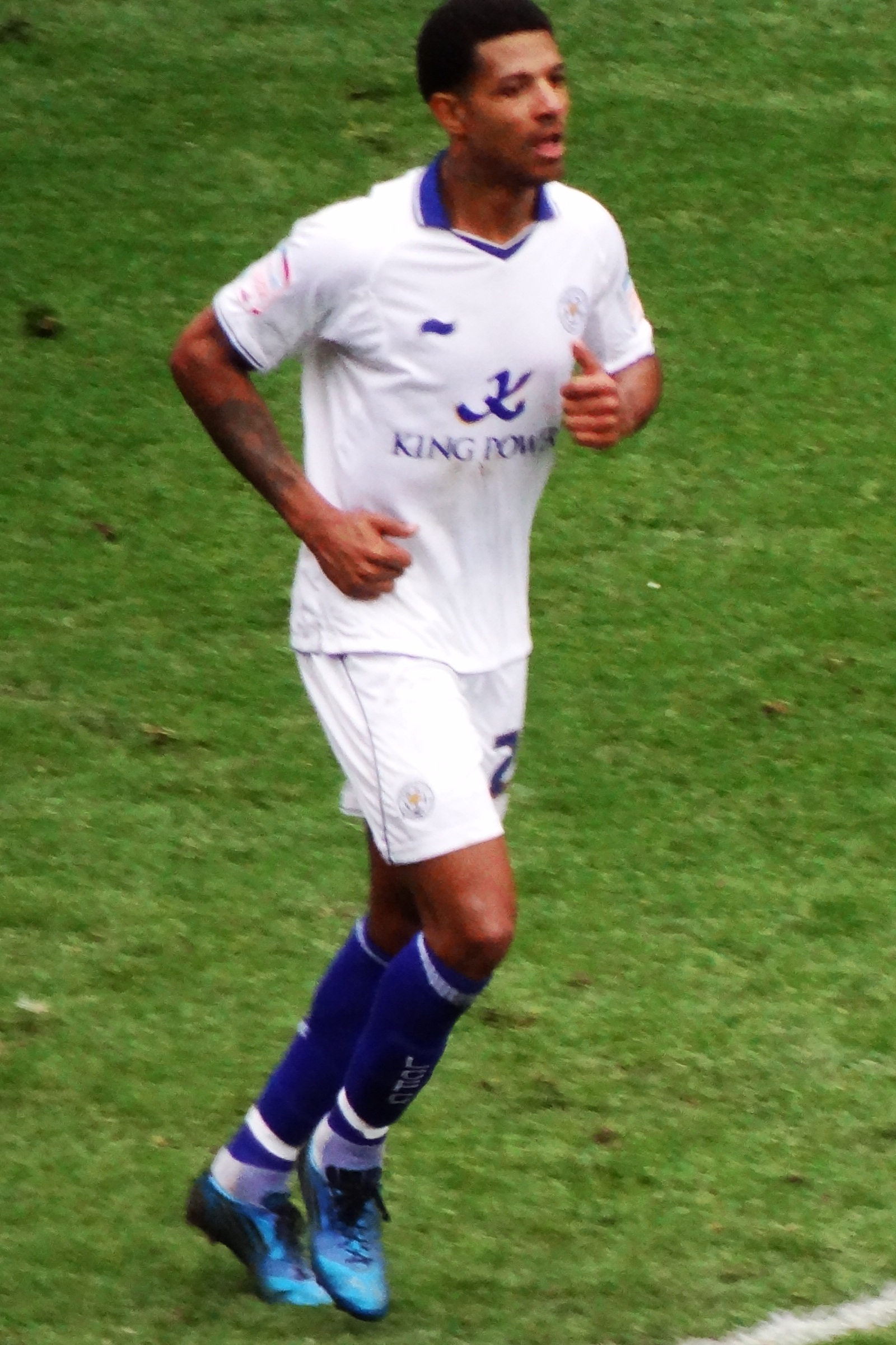 (Image cropped from original at Flickr)